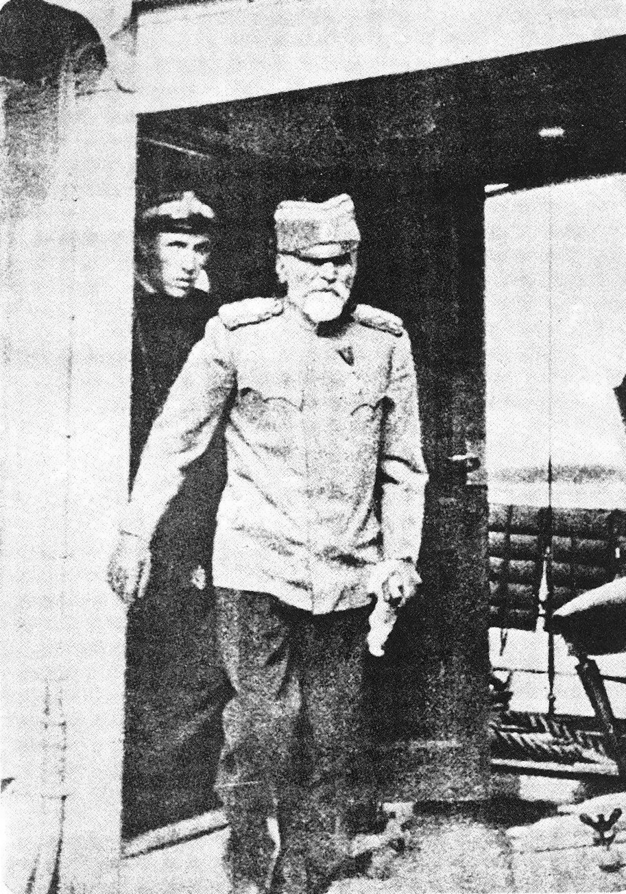 Duke Putnik on island Krf 1916. Српски (ћирилица): Војвода Путник на Крфу 1916. године